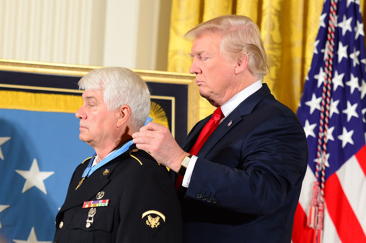 President Donald Trump presents Medal of Honor to James McCloughan